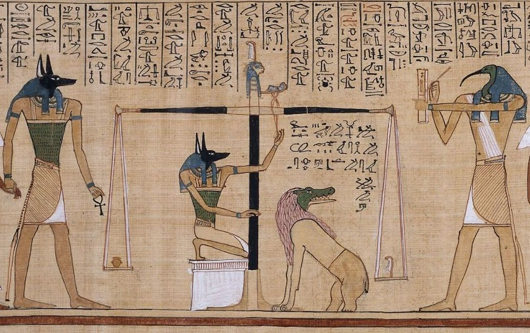 "This is an excellent example of one of the many fine vignettes (illustrations) from the Book of the Dead of Hunefer. The scene reads from left to right. To the left, Anubis brings Hunefer into the judgement area. Anubis is also shown supervizing [sic] the judgement scales. Hunefer's heart, represented as a pot, is being weighed against a feather, the symbol of Maat, the established order of things, in this context meaning 'what is right'. The ancient Egyptians believed that the heart was the seat of the emotions, the intellect and the character, and thus represented the good or bad aspects of a person's life. If the heart did not balance with the feather, then the dead person was condemned to non-existence, and consumption by the ferocious 'devourer', the strange beast shown here which is part-crocodile, part-lion, and part-hippopotamus. However, as a papyrus devoted to ensuring Hunefer's continued existence in the Afterlife is not likely to depict this outcome, he is shown to the right, brought into the presence of Osiris by his son Horus, having become 'true of voice' or 'justified'. This was a standard epithet applied to dead individuals in their texts. Osiris is shown seated under a canopy, with his sisters Isis and Nephthys. At the top, Hunefer is shown adoring a row of deities who supervise the judgement." A more detailed explanation of the scene can be found in the public domain The Book of the Dead, by E. A. Wallis Budge.[1]